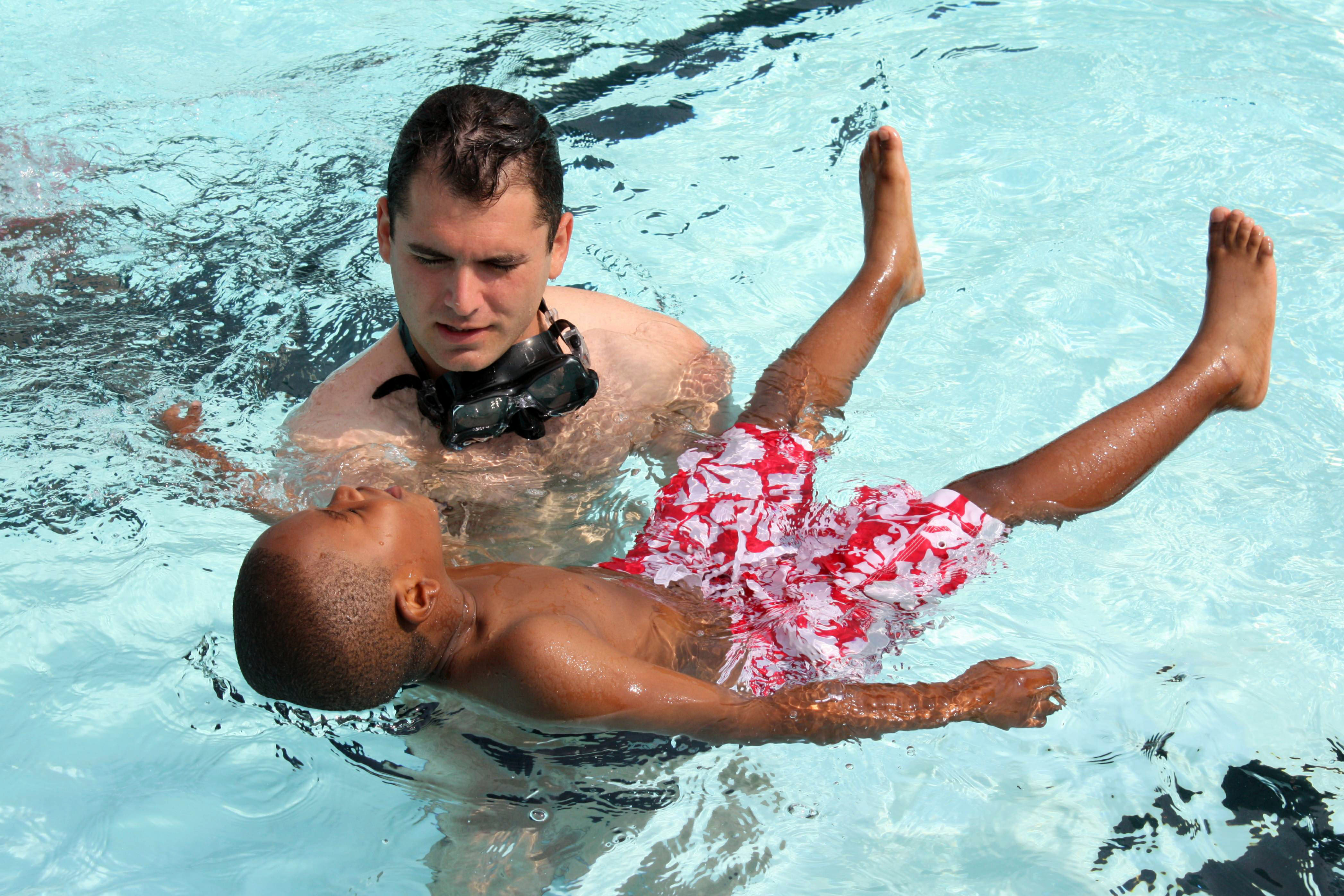 CHATTANOOGA, Tenn. (June 8, 2009) Navy Diver 2nd Class Bobby Demay, assigned to Mobile Diving and Salvage Unit 2 based at Navy Amphibious Base Little Creek, Va., teaches a child how to float on his back at a recreation center during a Chattanooga Navy Week event. Swimming lessons are just one of many Navy events scheduled throughout Chattanooga during the week. Navy Weeks are designed to show Americans the investment they have made in their Navy and increase awareness in cities that do not have a significant Navy presence. (U.S. Navy photo by Chief Mass Communication Specialist Dave Kaylor/Released)